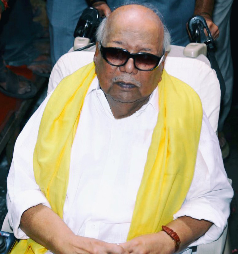 Karunanidhi pay homage to Manorama